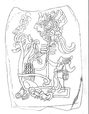 Drawing of Izapa Stela 25 taken from Japanese Wikipedia where "This image has been released into the public domain by the copyright holder, its copyright has expired, or it is ineligible for copyright. This applies worldwide."